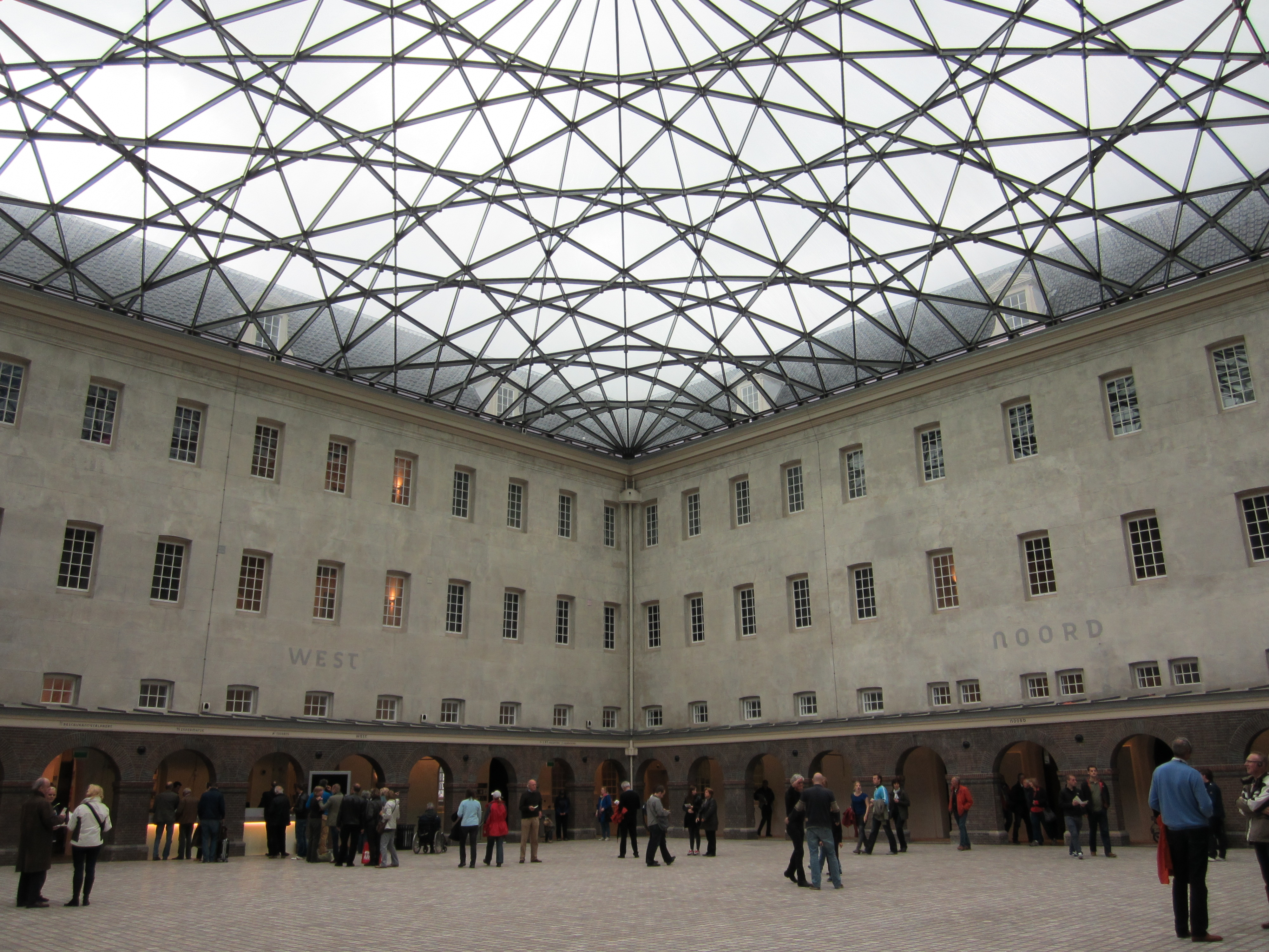 Interior courtyard of the Nederlands Scheepvaartmuseum during a heavy rainstorm. The ticket desk is on the left of the photo, underneath the 'West' sign.